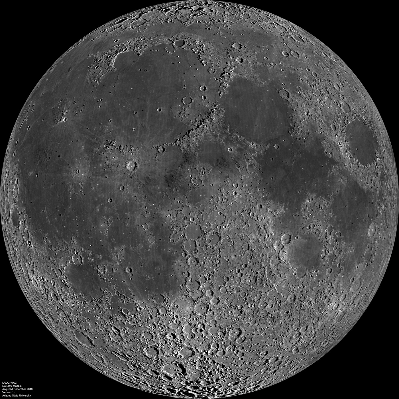 Nearside of Moon, by Lunar Reconnaissance Orbiter. The images that comprise this mosaic were collected over a two-week period in mid-December 2010.